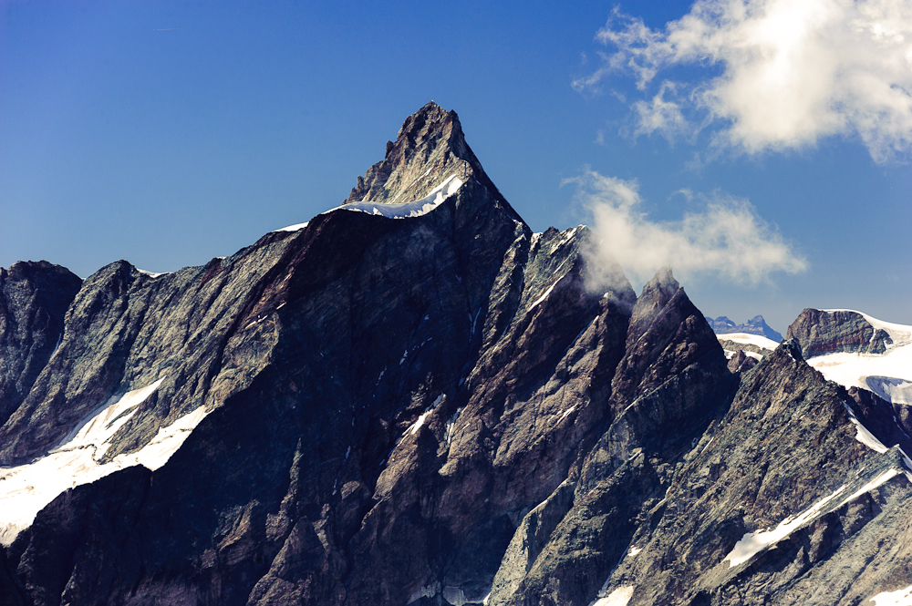 Taken from the observation platform at Klein Matterhorn.